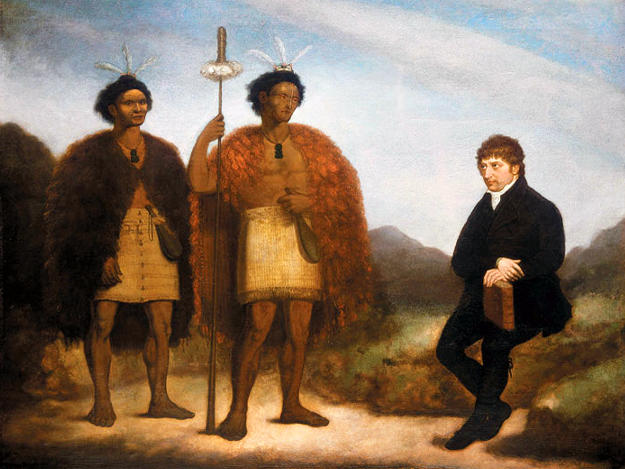 The chiefs Waikato and Hongi Hika with missionary Thomas Kendall in England, oil painting by James Barry, 1820. National Library of New Zealand Te Puna Mātauranga o Aotearoa, Alexander Turnbull Library, Wellington (Ref:G-618)